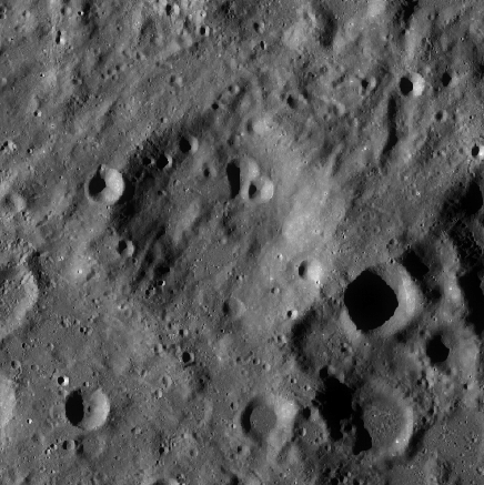 LRO WAC. Wan-Hoo overflowed by Hertzsprung ejecta